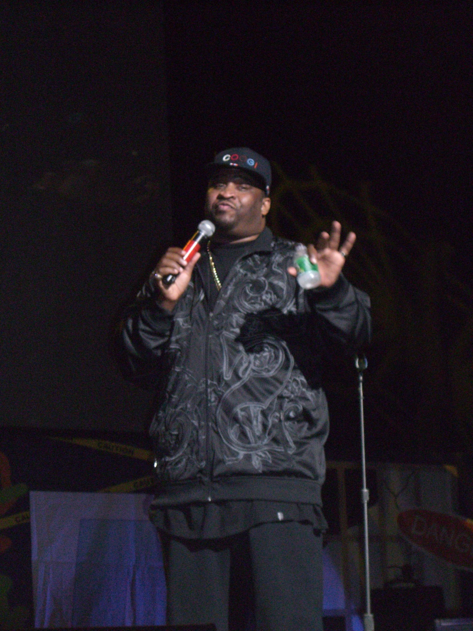 Patrice O'Neal at the O&A Traveling Virus, 2007.